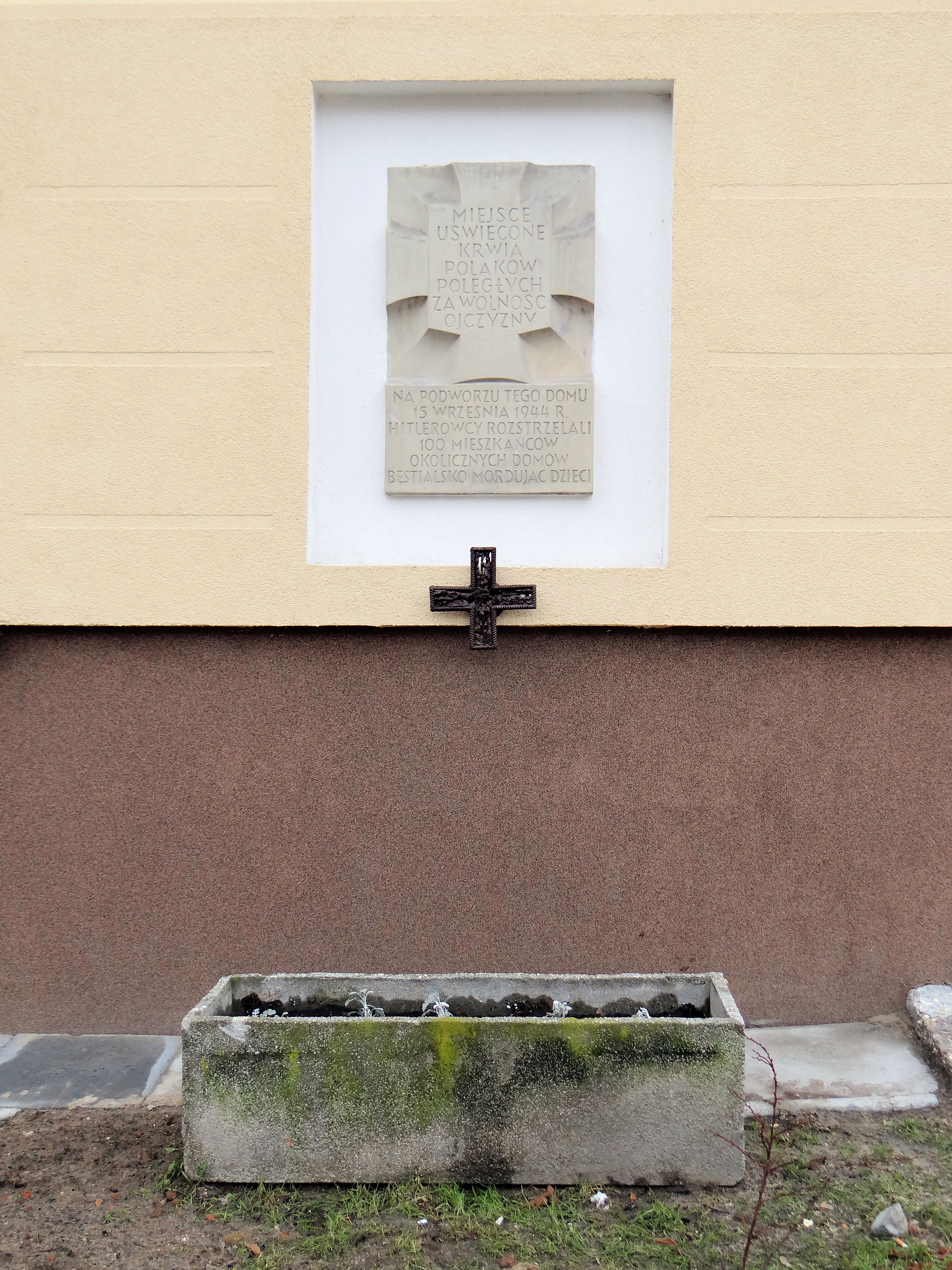 Place of National Memory at 4A Gdańska Street in Warsaw